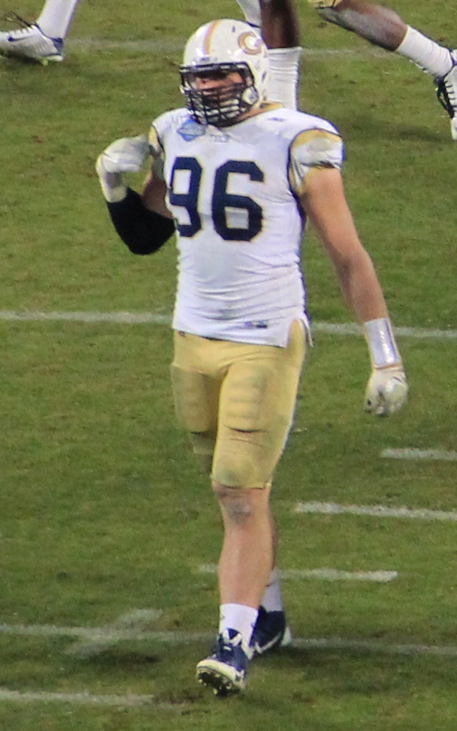 Adam Gotsis in 2014